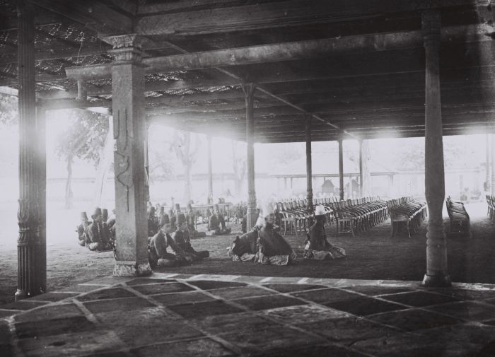 The 'sitinggil' in the Kraton of the Sultan of Yogyakarta waiting for Sultan Hamengku Buwono VIII and the Dutch Resident during the Garebeg Puasa.